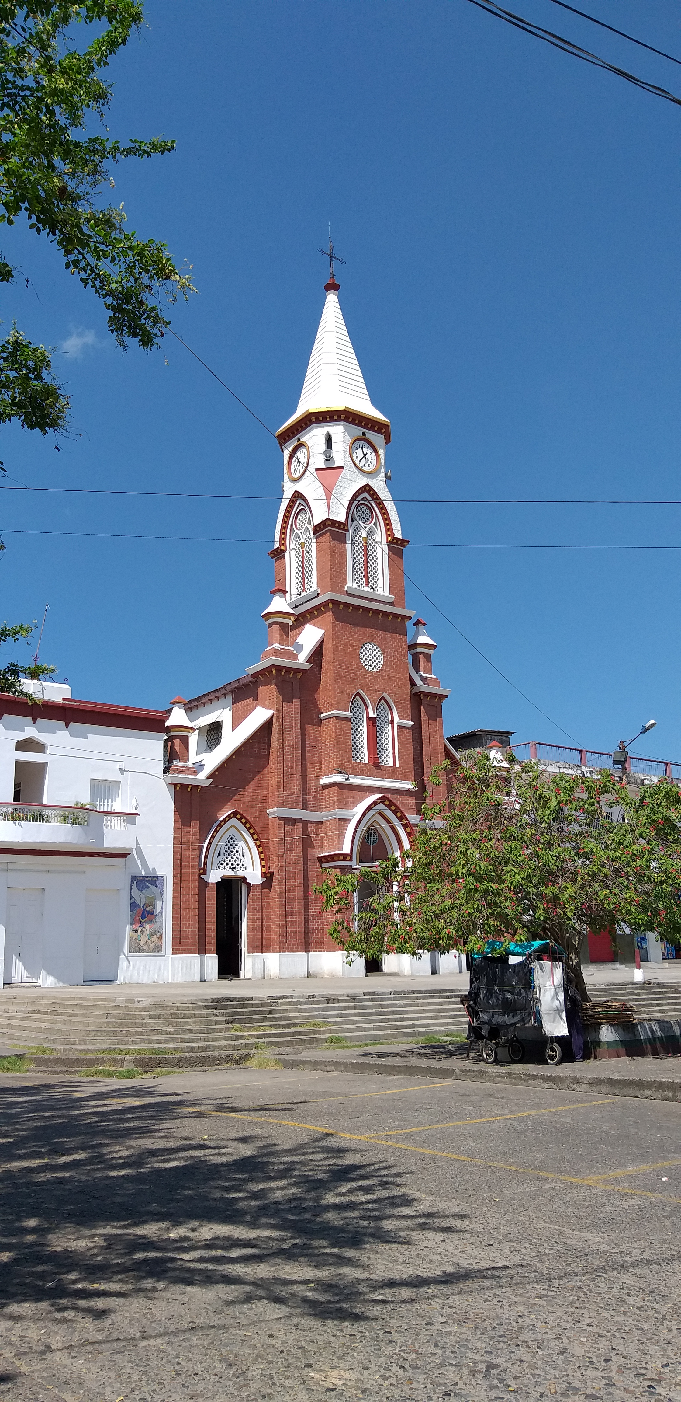 Iglesia Principal del Municipio de Puerto Berrio (Antioquia)